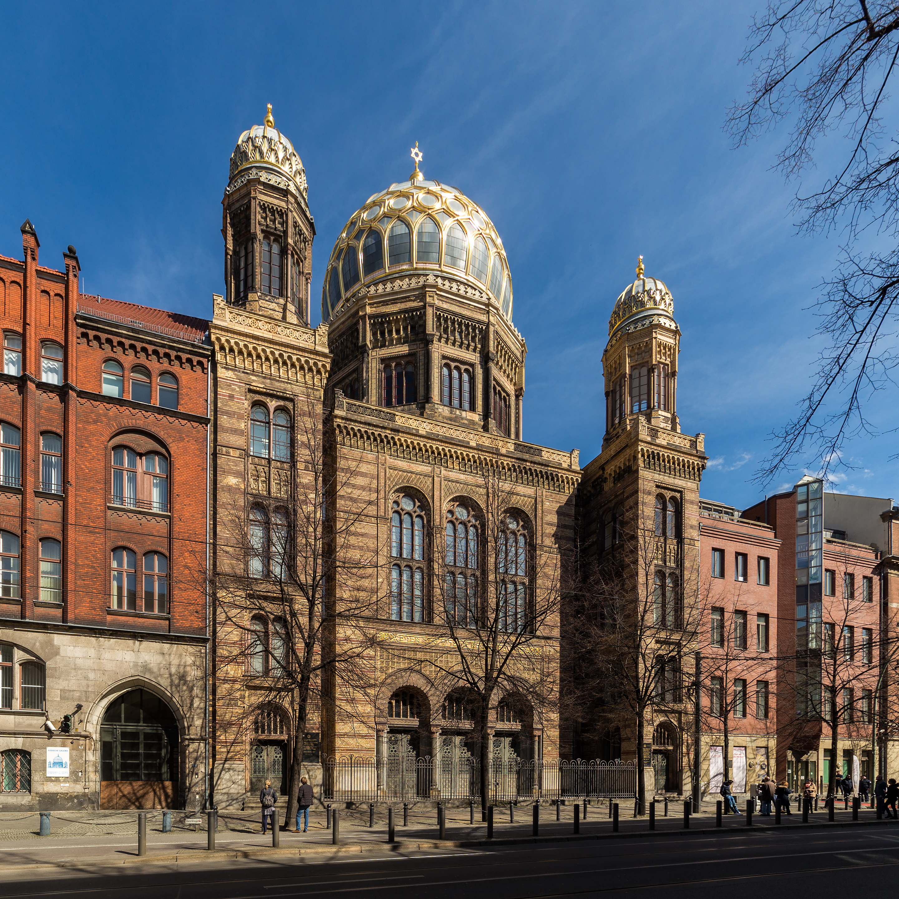 Neue Synagoge, Oranienburger Strasse, Berlin-Mitte.